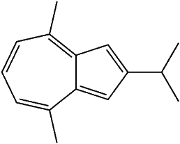 Description: Chemical structure of Vetivazulene Author, date of creation: selfmade by Shaddack, 3 November 2005 Source: self-made Copyright: Public Domain (PD) Comments: b/w hires PNG; ChemDraw